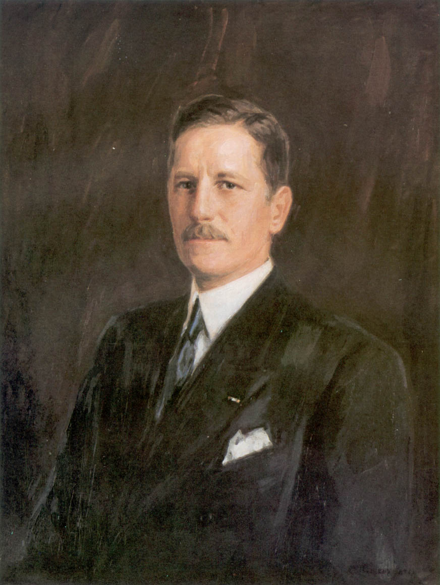 Painting of a Patrick Jay Hurley by Frank Townsend Hutchens